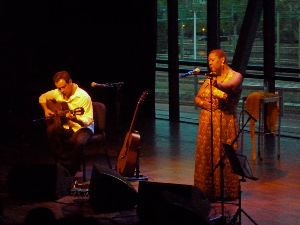 Virgínia Rodrigues